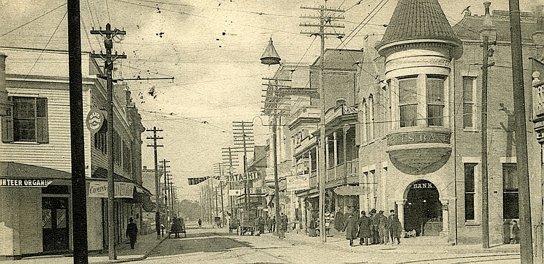 Looking West down Howard Avenue at Lameuse Street in Biloxi, Mississippi in 1906. Derivative of public domain postcard.